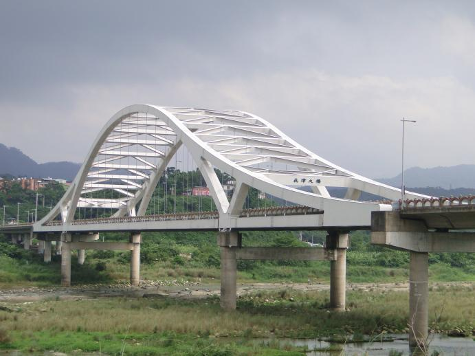 Can-Jin Bridge, Taoyuan, Taiwan.